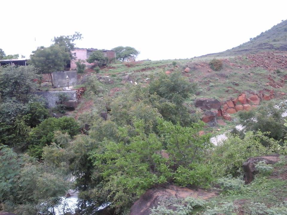 village